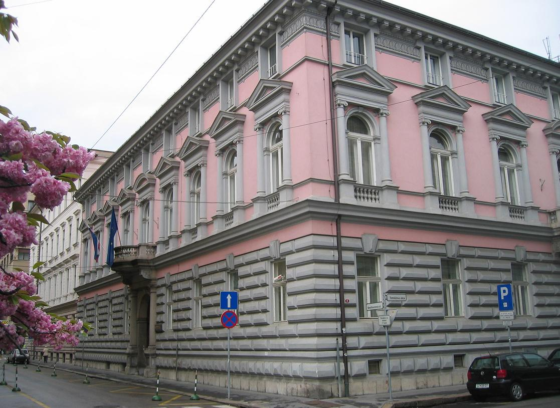 Constitutional courthouse, Ljubljana photo:Ziga 22:46, 1 May 2006 (UTC)